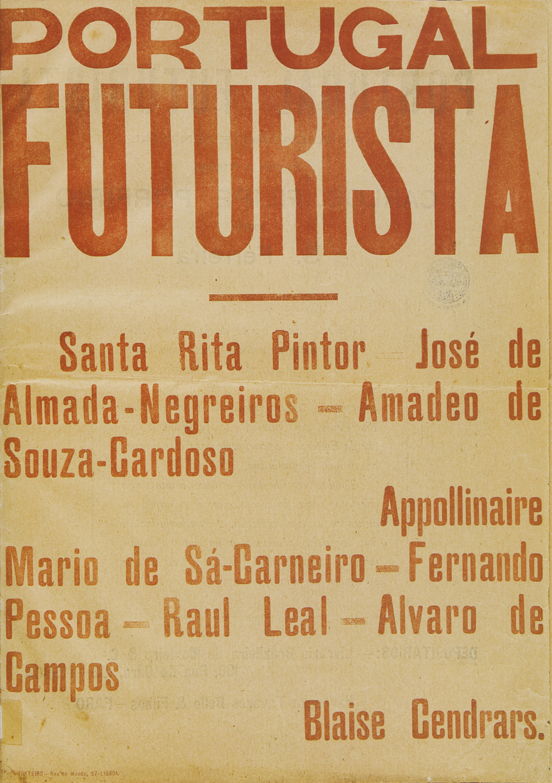 Portugal Futurista Magazine, Number 1, 1917